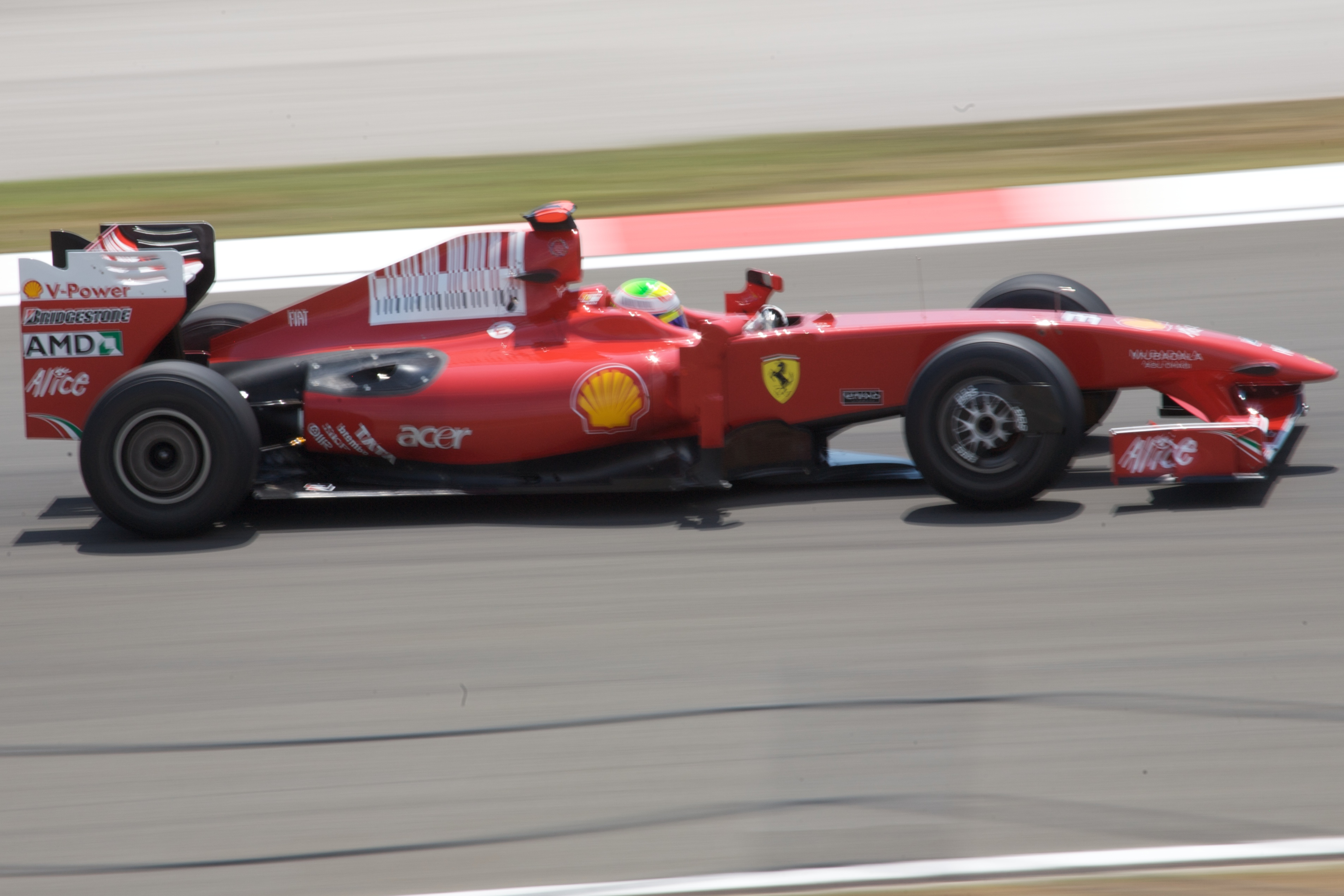 Felipe Massa driving for Scuderia Ferrari at the 2009 Turkish Grand Prix.